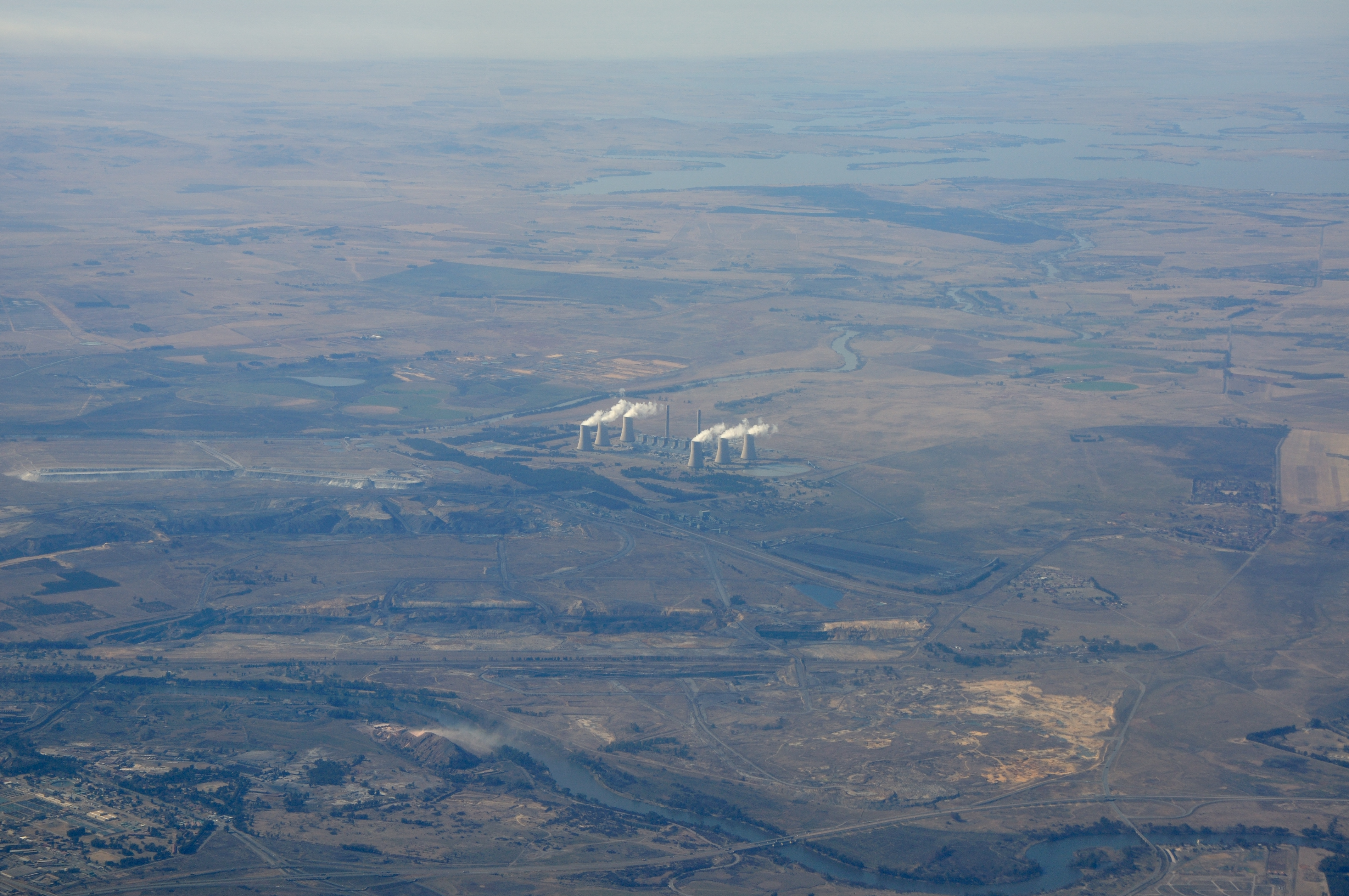 South Africa, Lethabo Powerstation near Vereeniging from overhead Boipatong